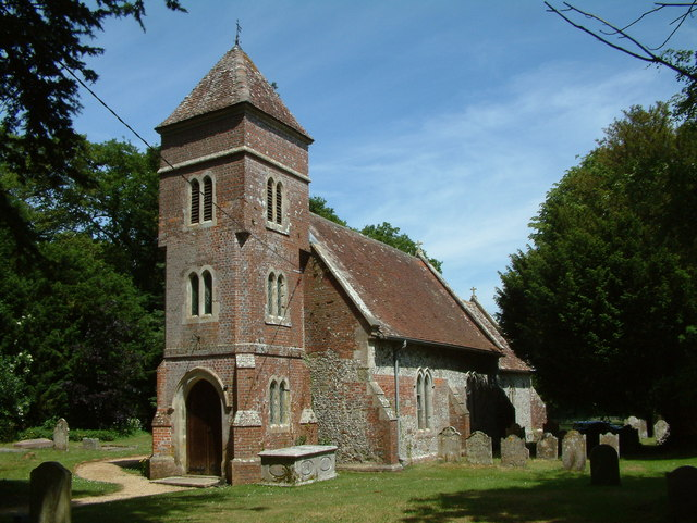 St Leonard's Church, Whitsbury, Hampshire, UK.